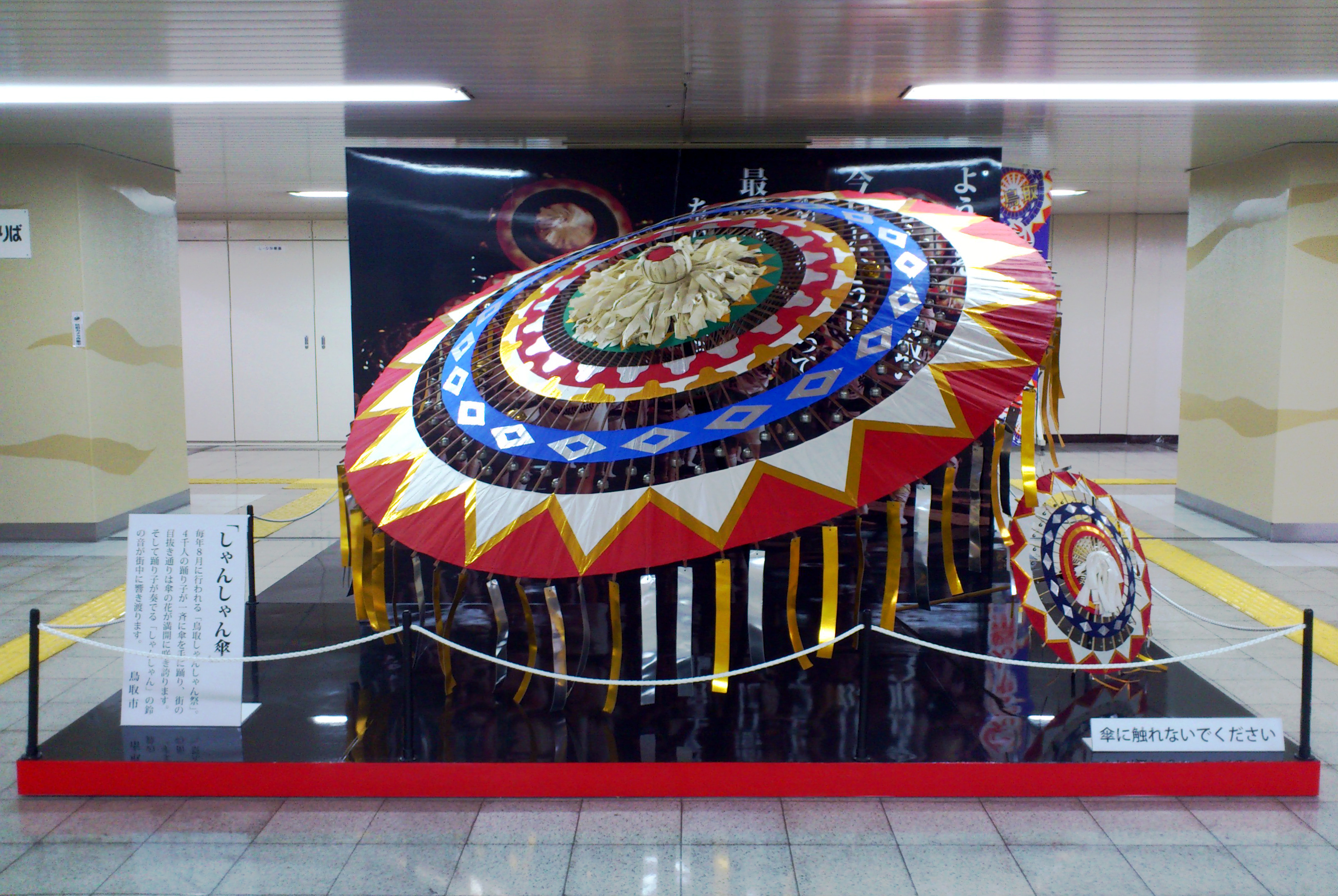 Shan-Shan Gasa displayed in Tottori Station (Tottori, Tottori Prefecture, Japan)